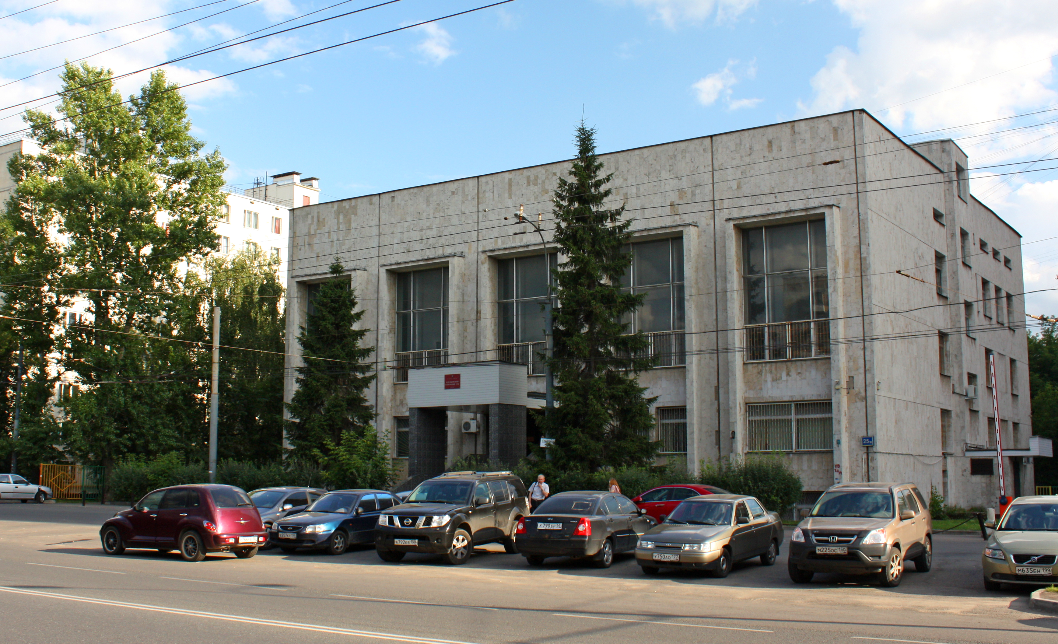 Moscow. Street of Marshal Tukhachevsky. Horoshyovsky district court (house 25 buildings 1)